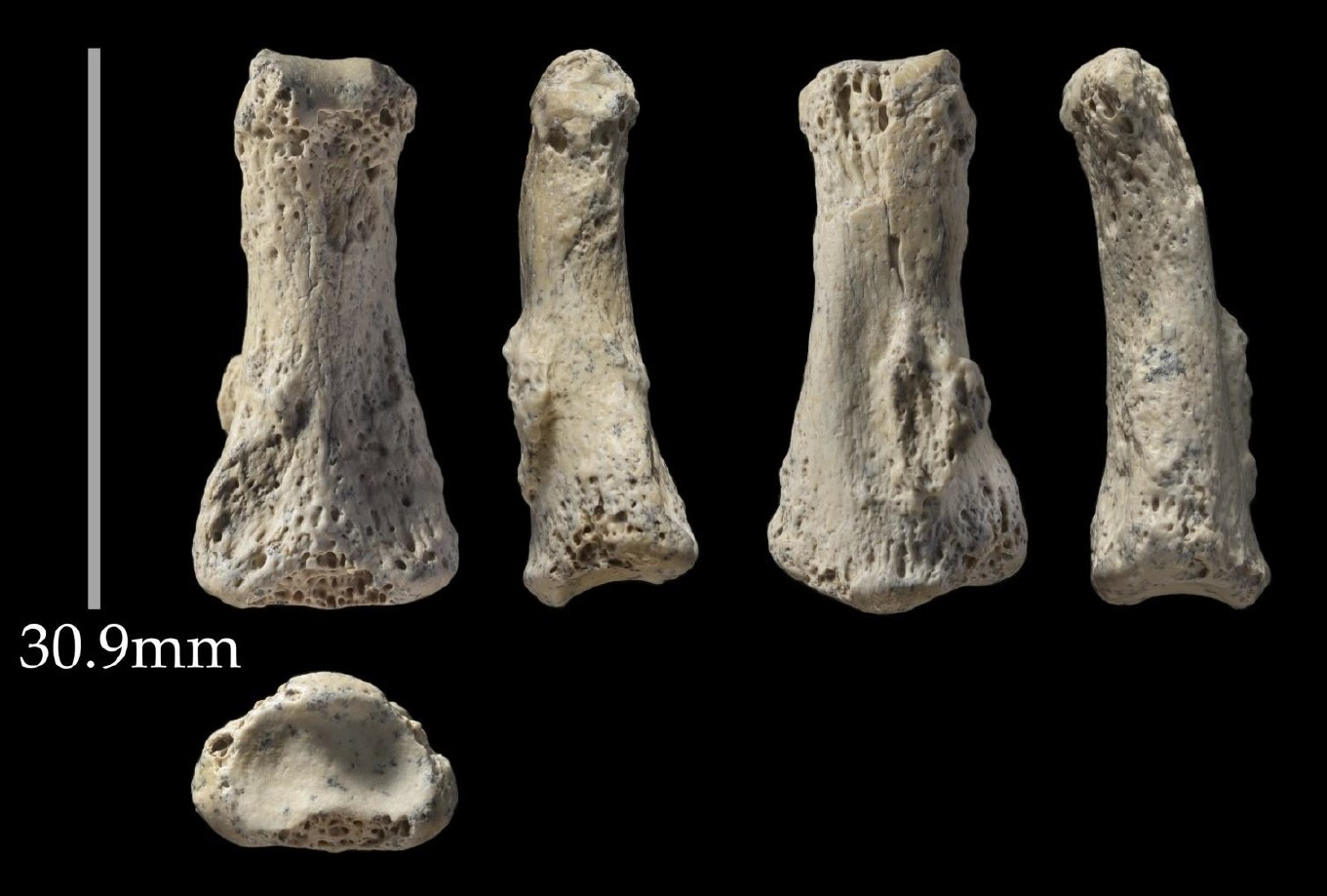 من القطع والمواقع الاثرية لحضارات تيماء